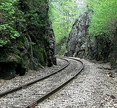 Railroad cut at Cavendish, Vermont, presumed to be the site where Phineas Gage's accident occurred. This image is a cropped version of File:RailroadCutCavendishVermontPresumedToBePhineasGageAccidentSite.jpg.